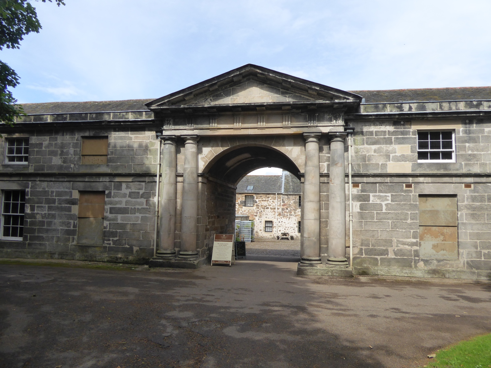 The entrance to the stables at Newhailes House. Category A listed.